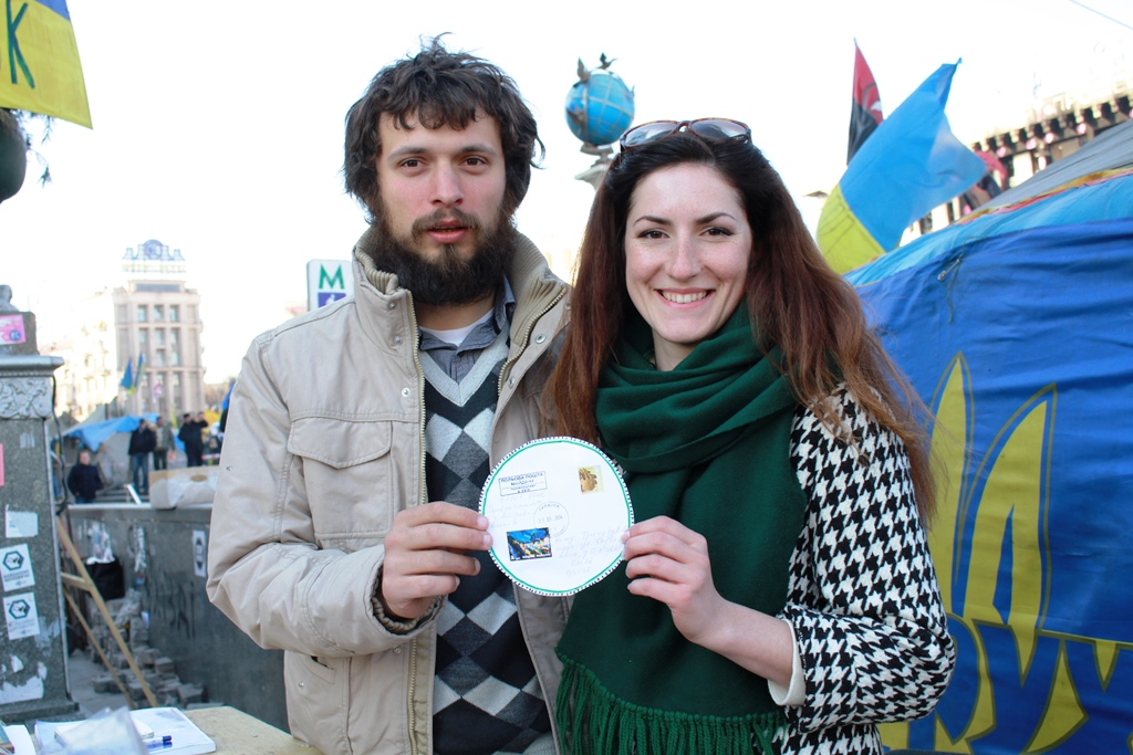 Yuriy Reglis and Marta Chabanyuk - founders of the Poshta of Maidan (Maidan postal service).